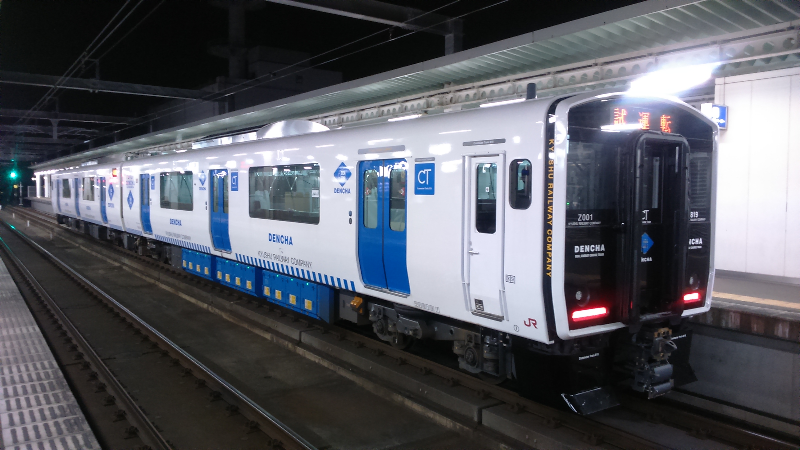 JR Kyushu 819 series battery EMU set Z001 at Yoshizuka Station on the Fukuhoku Yutaka Line during a late-night test run